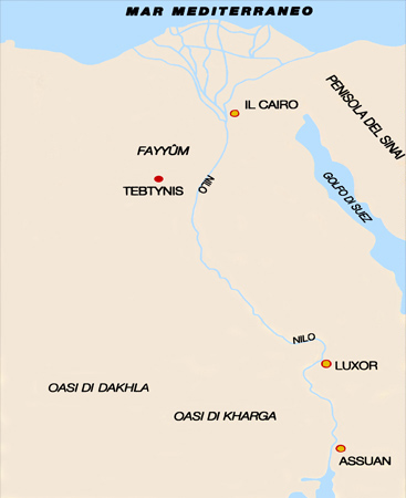 The location of Tebtynis